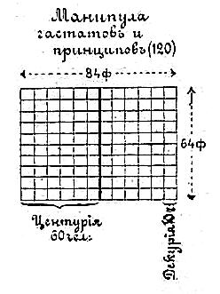 Maniple (Latin: manipulus, literally meaning "a handful") was a tactical unit of the Roman legion adopted from the Samnites during the Samnite Wars (343–290 BC). It was also the name of the military insignia carried by such unit.